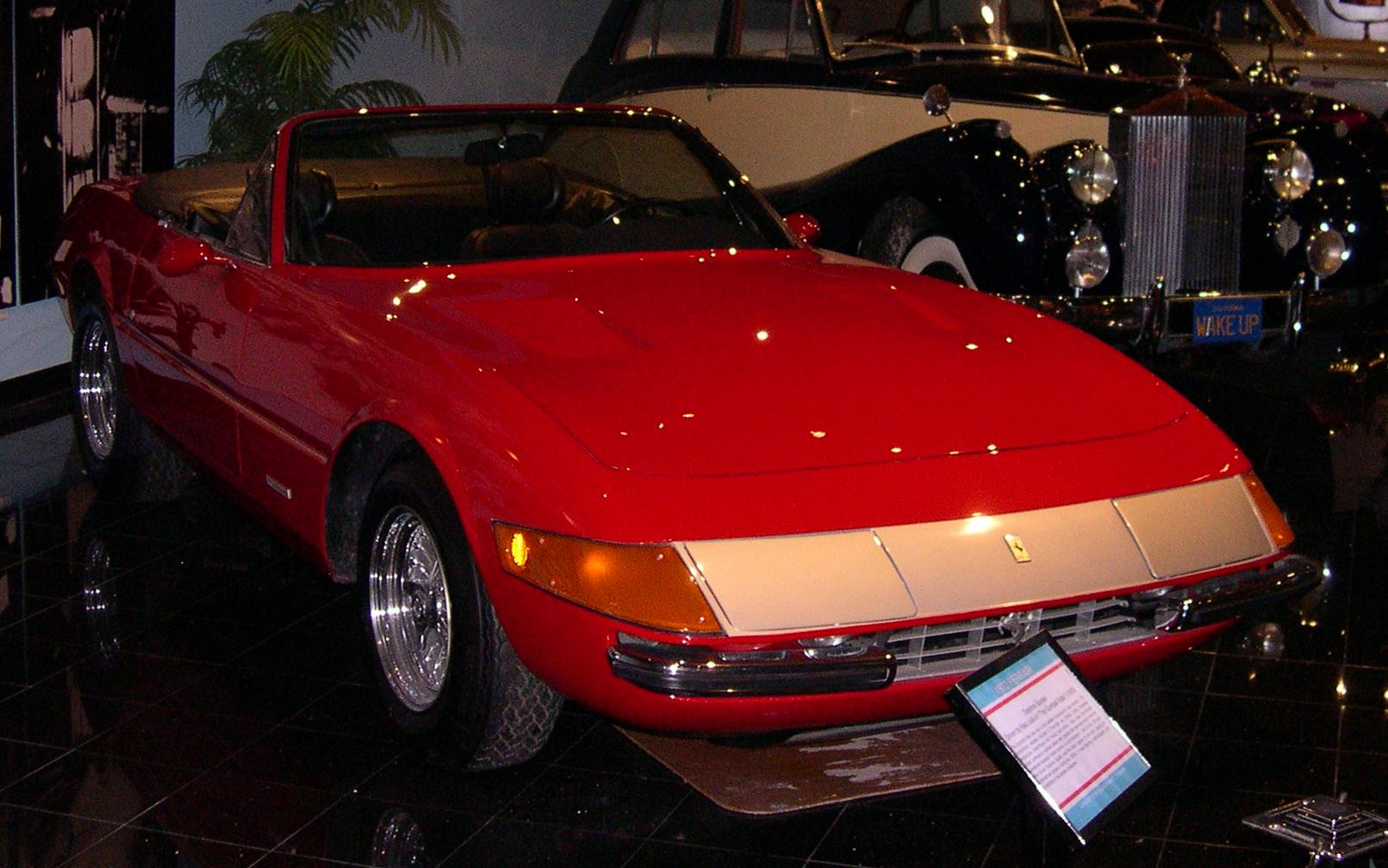 1972 Ferrari Daytona Spider Featured in the 1976 film, "The Gumball Rally" From the Petersen Automotive Museum, Los Angeles, CA